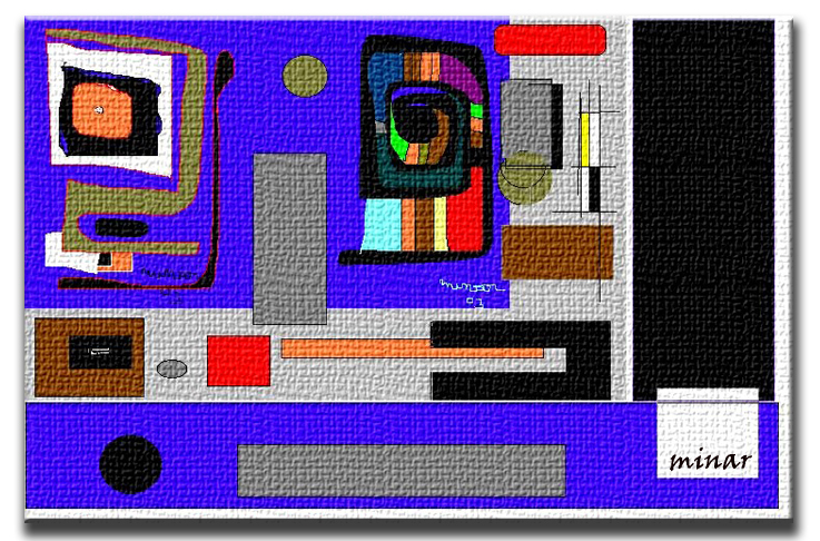 conception numérique by Abdoulaye Armin kane: An artwork for Wikipedia, created by Abdoulaye Armin Kane.